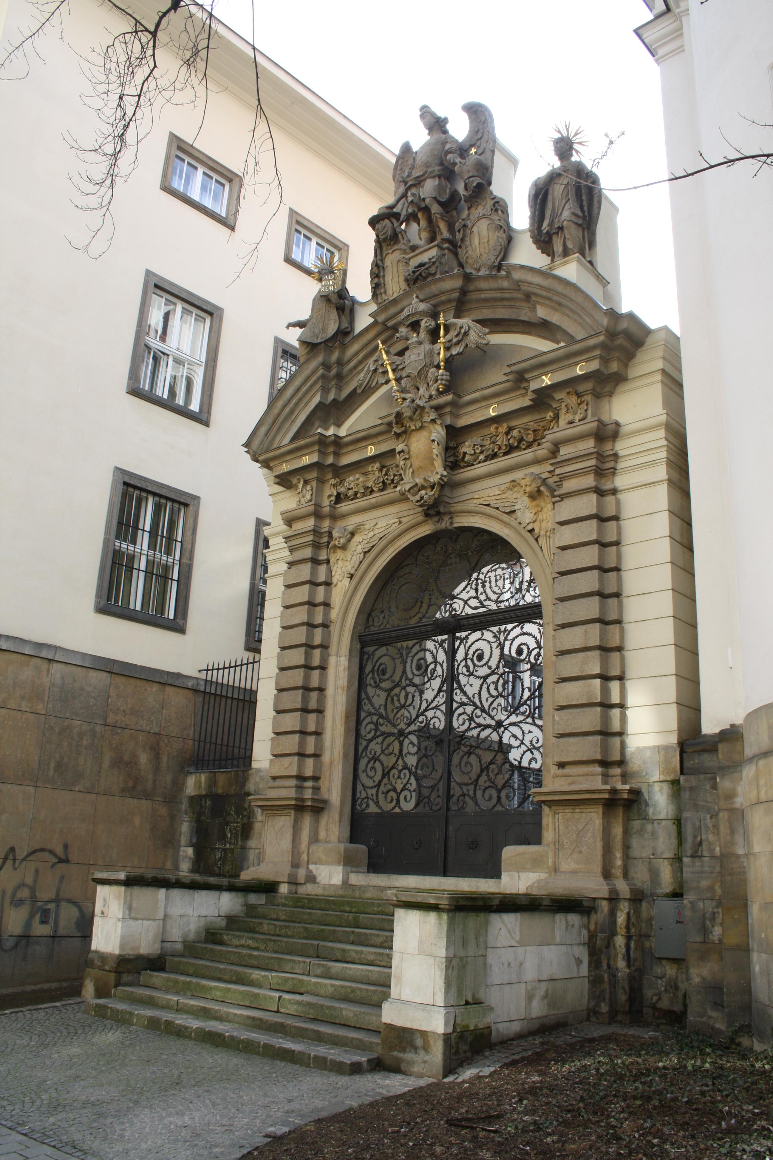 Gate of atrium of Jezuit college in Brno-Center.